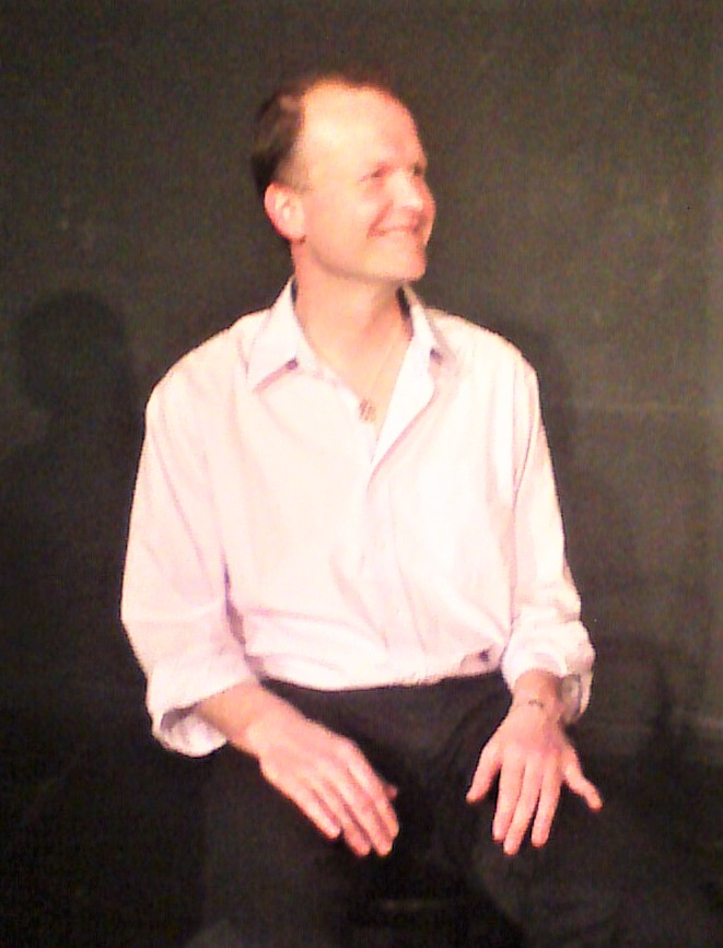 T.J. Jagodowski sits on stage after a show at iO Chicago in April 2013.